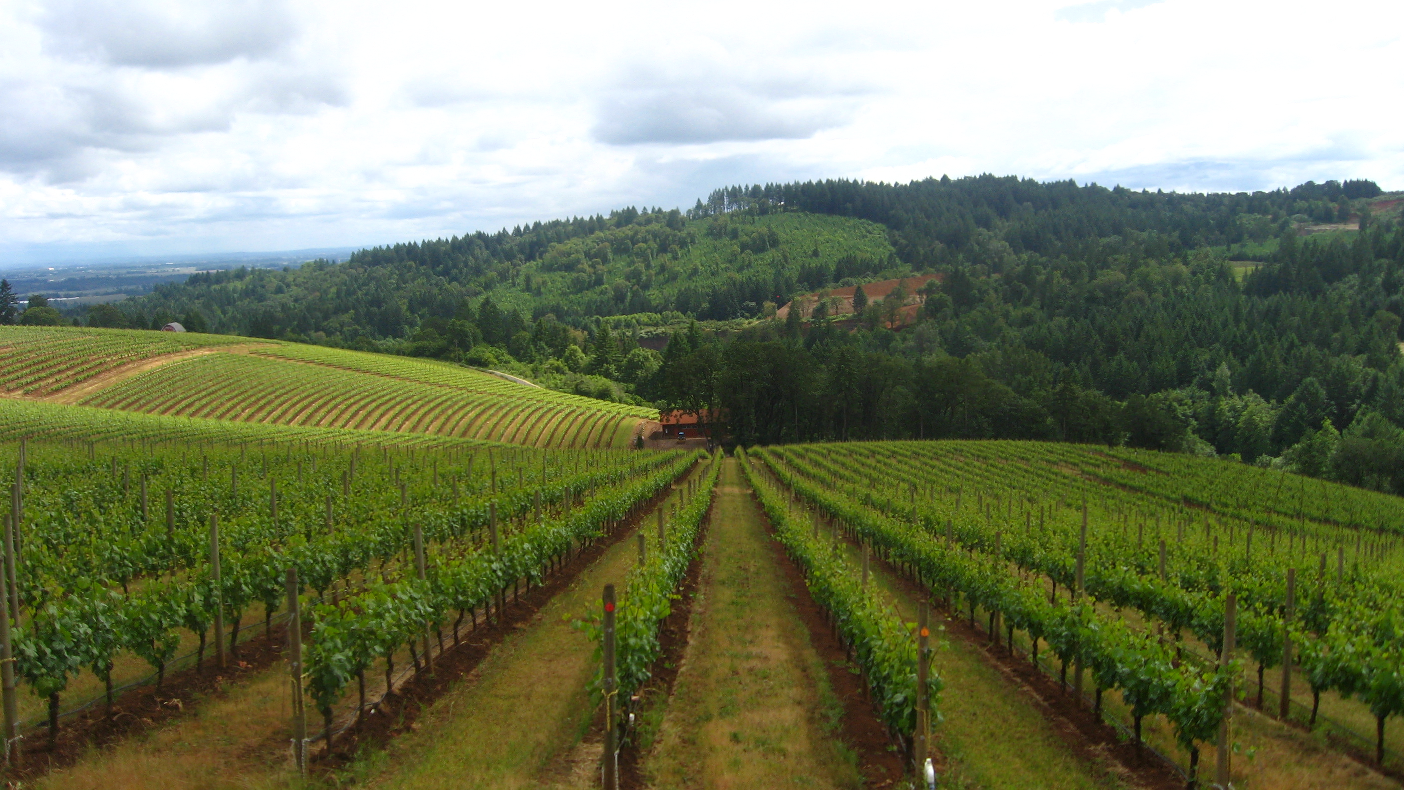 Vineyard on Hwy 99 W, Oregon.